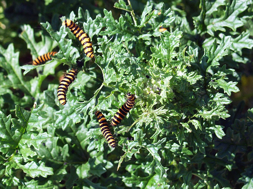 Caterpillar of Tyria jacobaeae, at the Dutch island Neeltje Jans / Oosterschelde